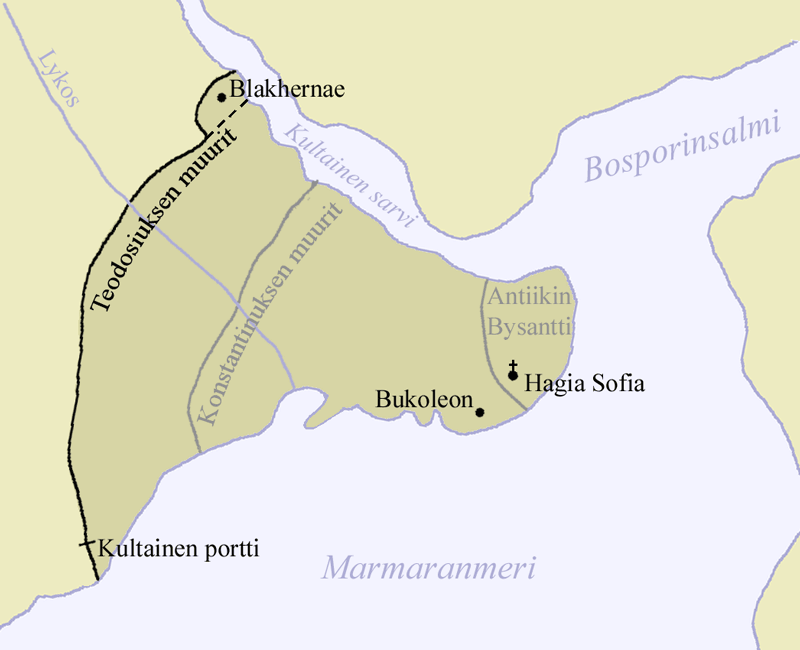 Map of Byzantine Constantinople.